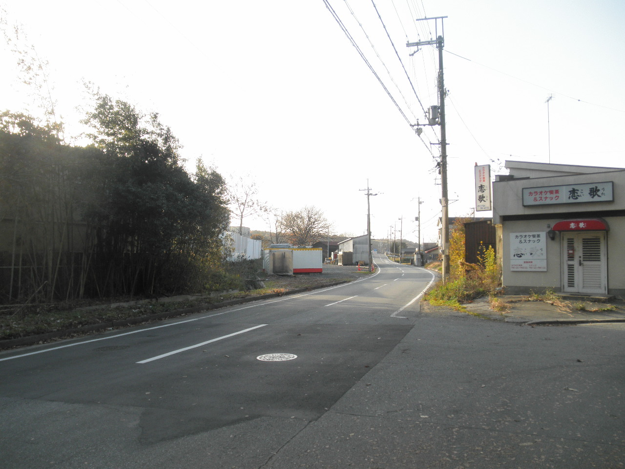 Yahatatown Nomura Kakogawacity Hyogopref Hyogoprefectural road 377 Nomura Akashi Line